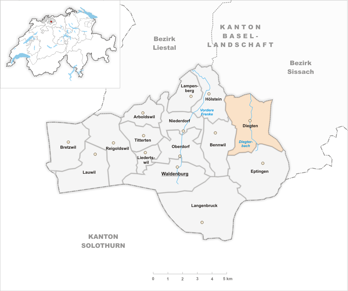 Municipality Diegten